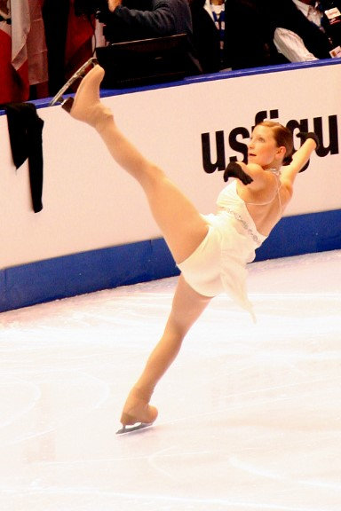 Michele Cantu performs a spiral at the 2006 Skate America.